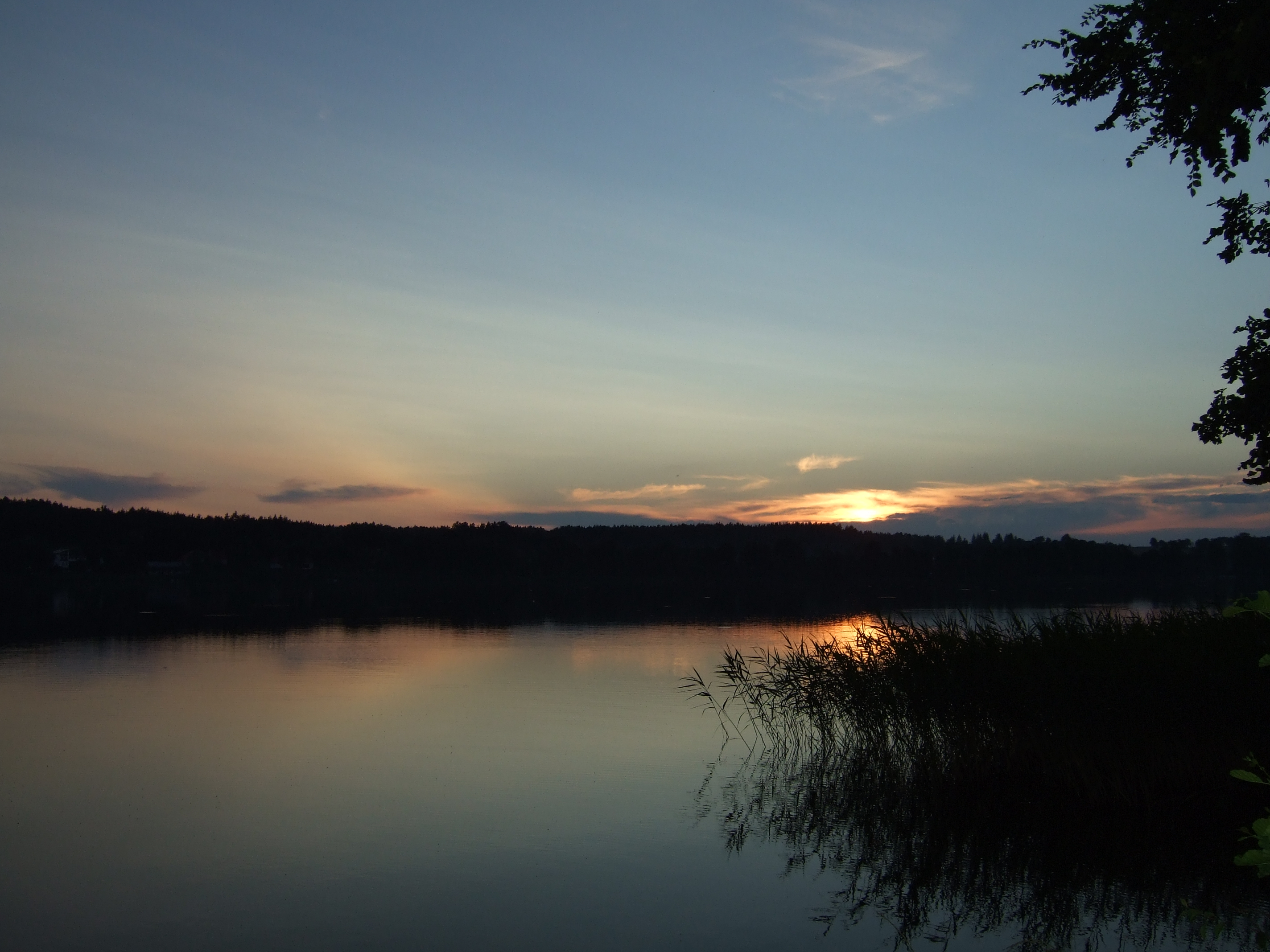 Juno lake in Mrągowo